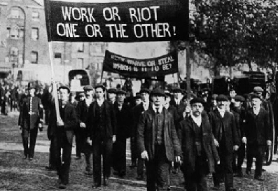 Langileak bere baldintzen aldeko protesta batean.